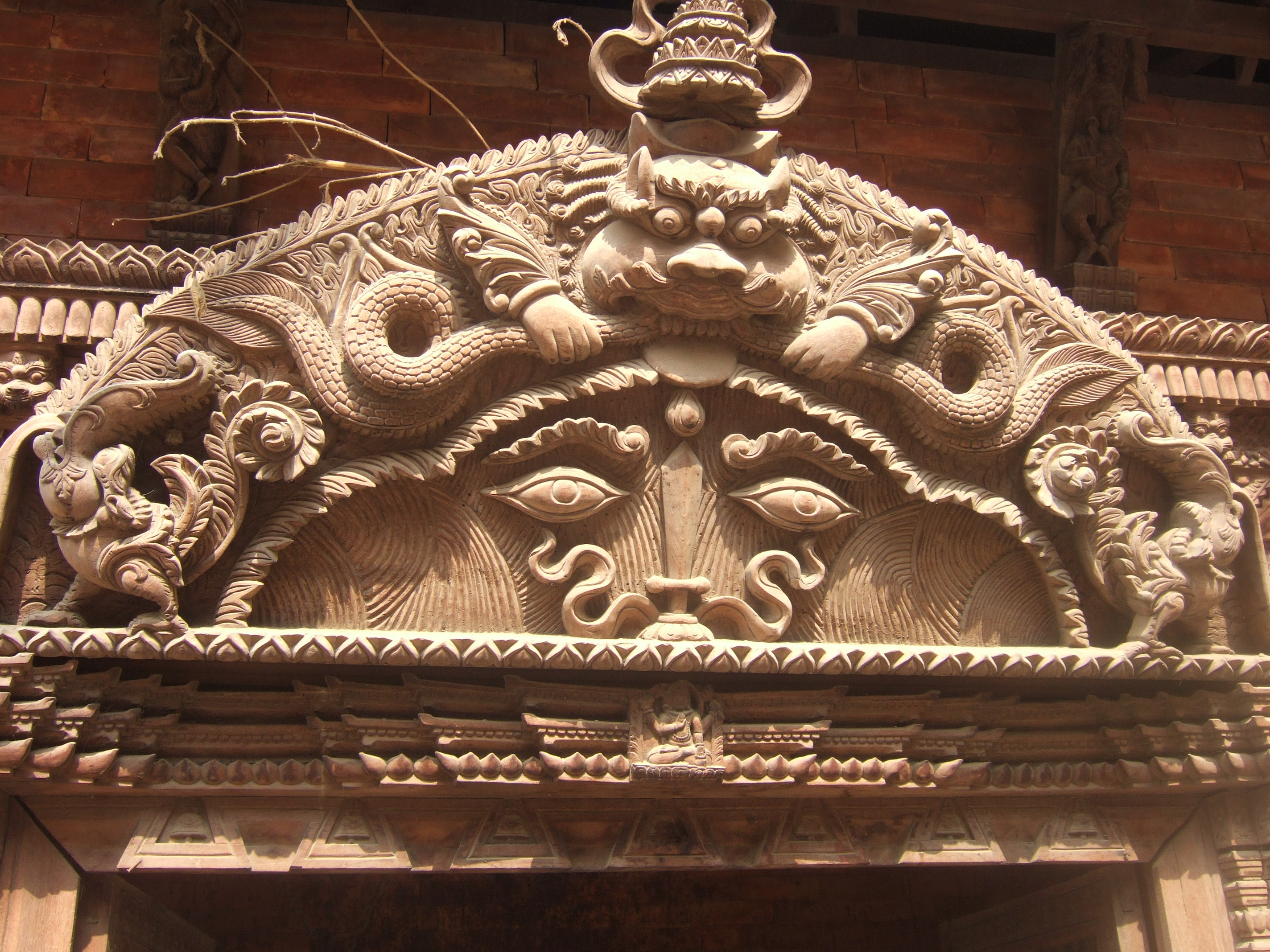 Kirtimukha on top of arch above entrance to Hindu temple in Kathmandu. Makara at bases of arch